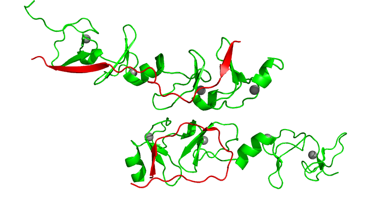 Crystal Structure of Lhx3 LIM domains 1 and 2 with the binding domain of Isl1.The red is a fraction of Isl-1 and the green is a fraction of Lhx3. Grey sphere is zinc.